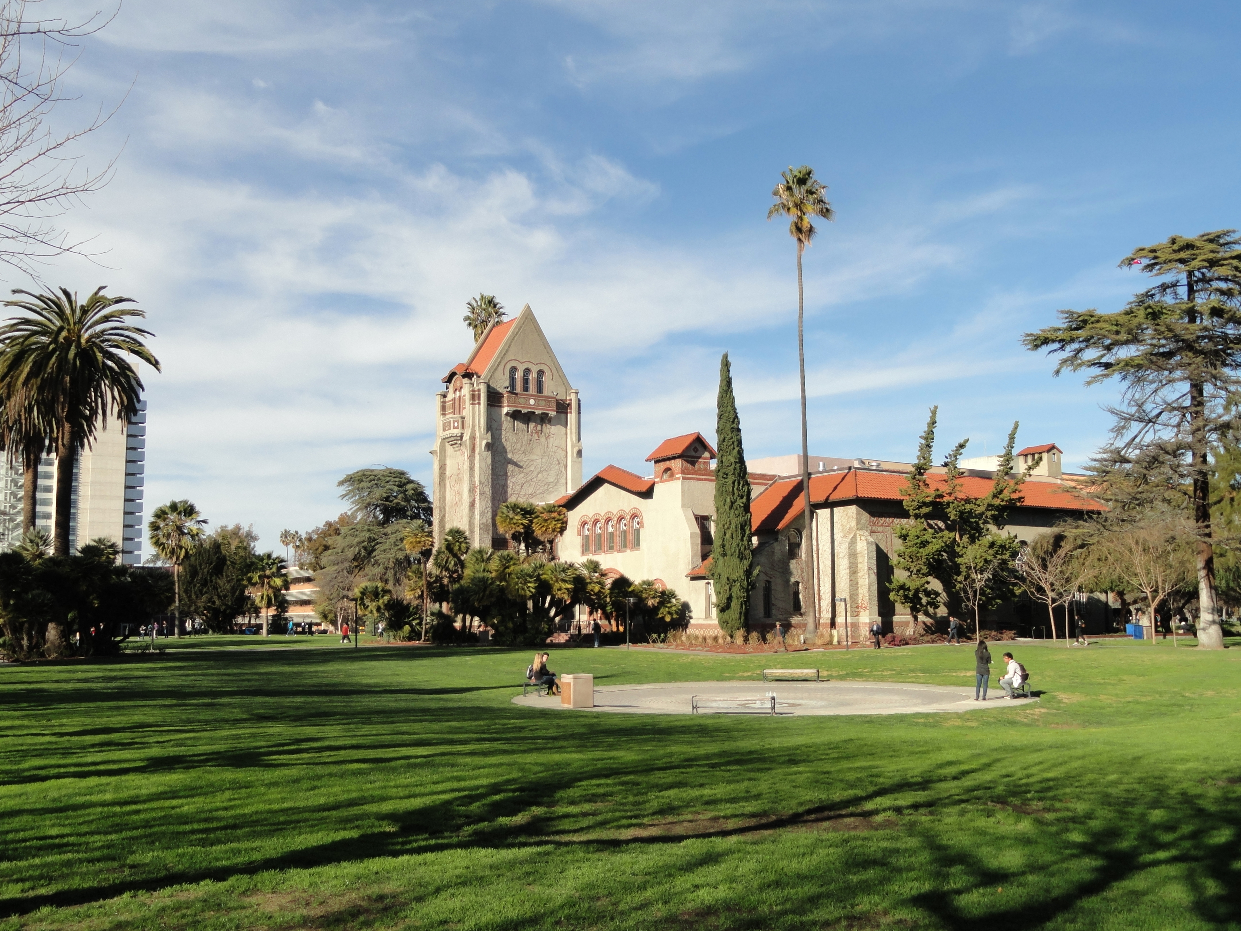 San José State University, San Jose, California, USA.